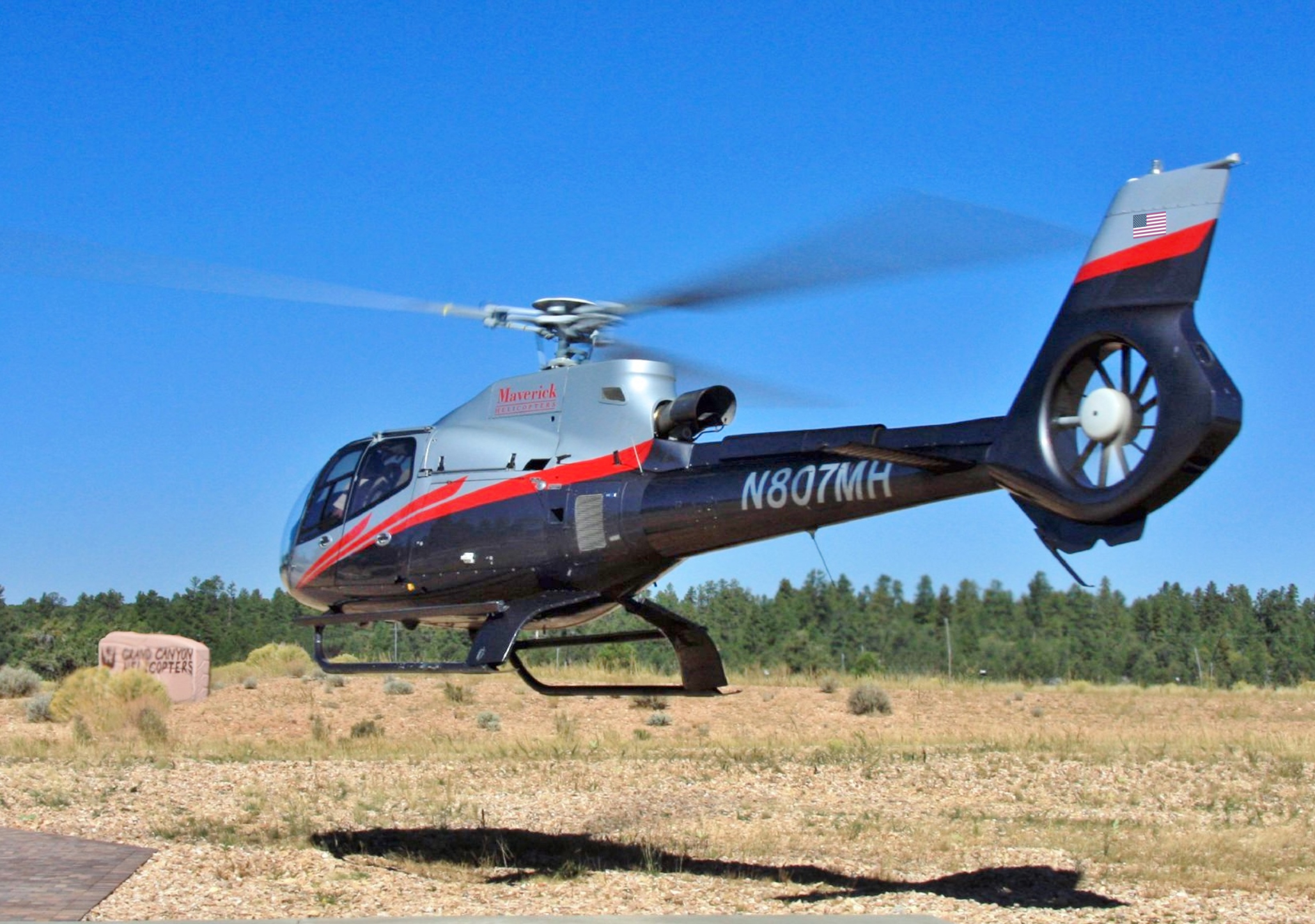 Grand Canyon Helicopter